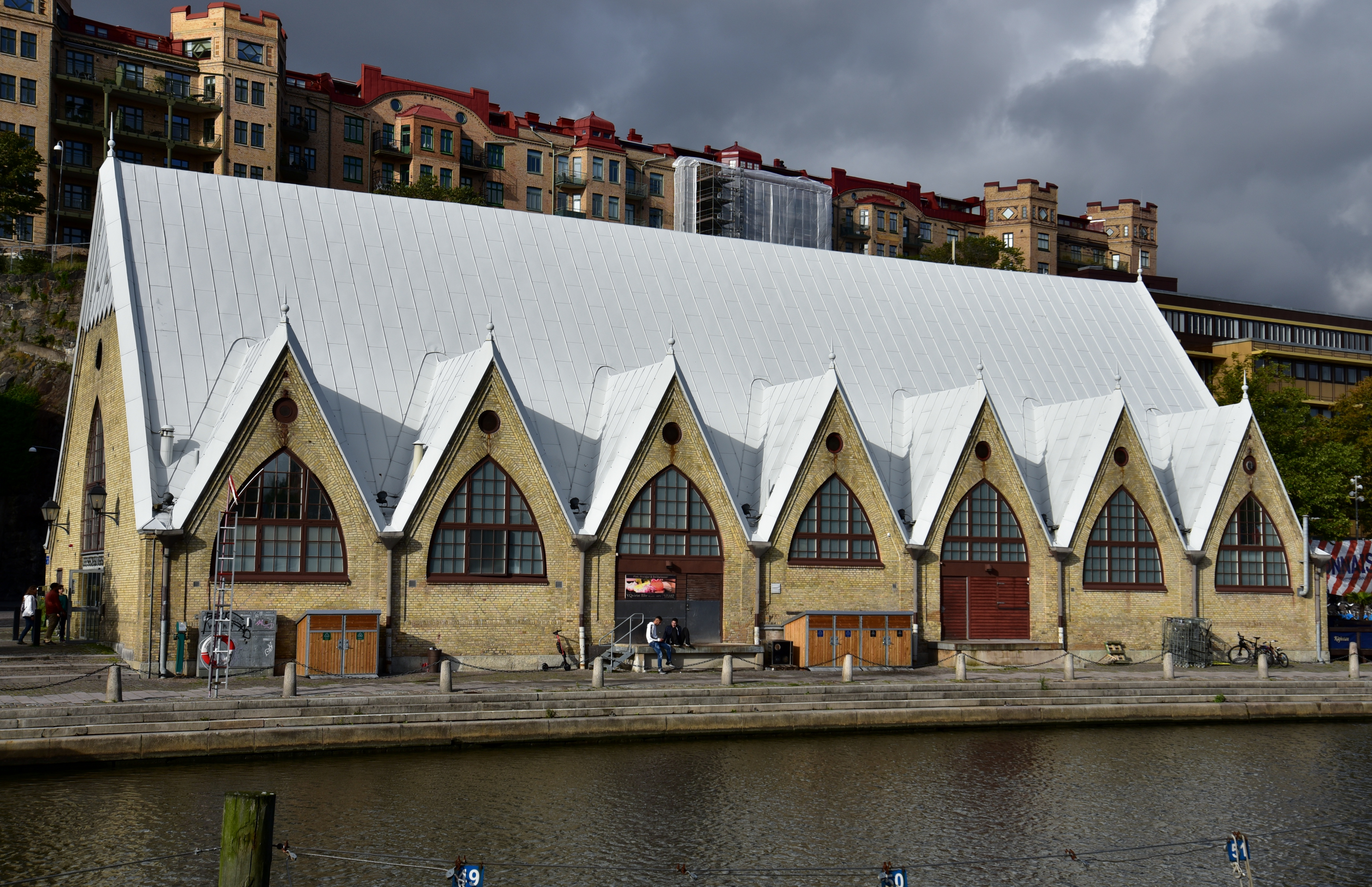 View of Feskekôrka, Gothenburg, Sweden